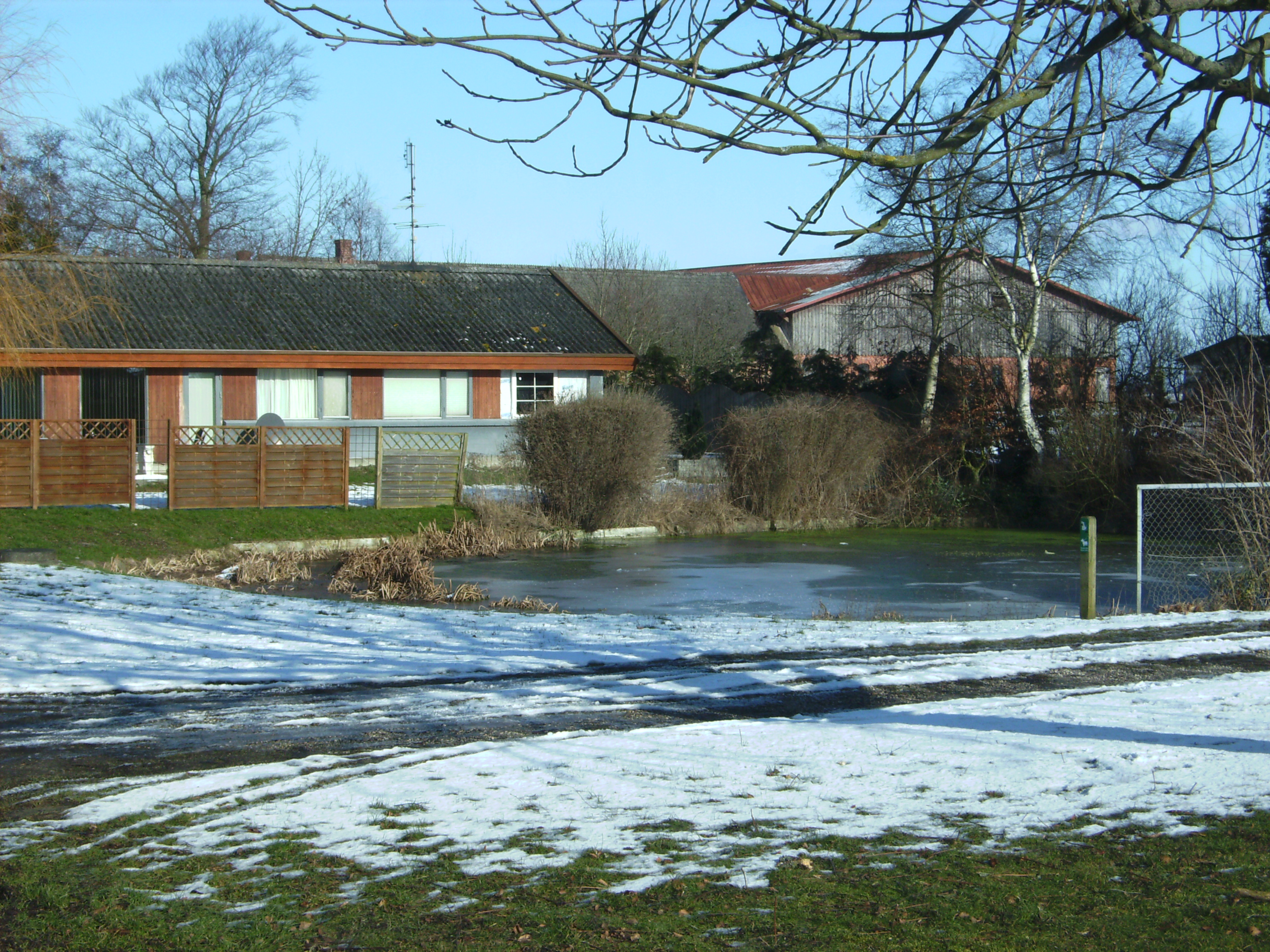 The lokal pond, Sløsse, Lolland, Denmark